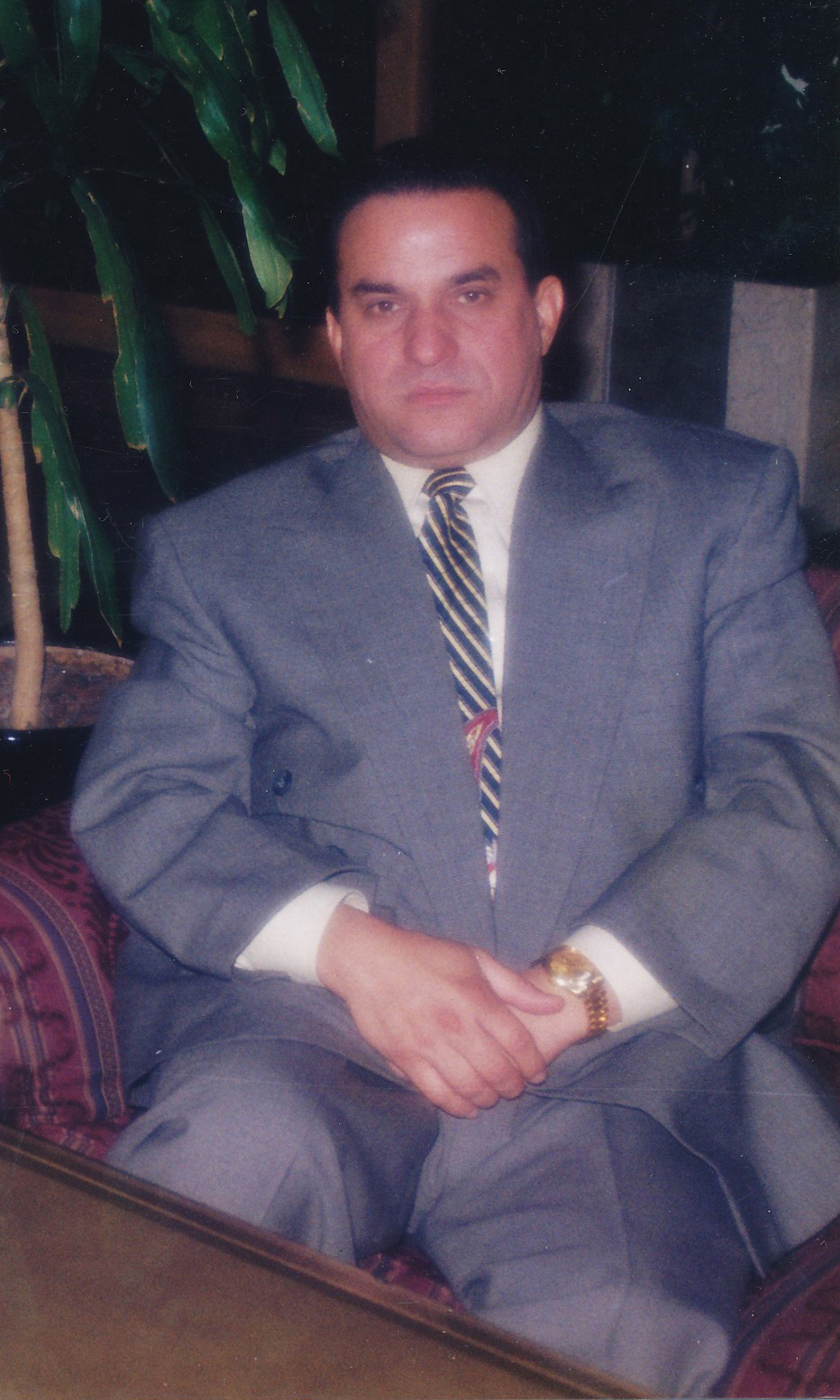 This is Mian Muhibullah Kakakhel picture / photo and is uploaded for the usage of wiki pedia in their research based articles and pages.